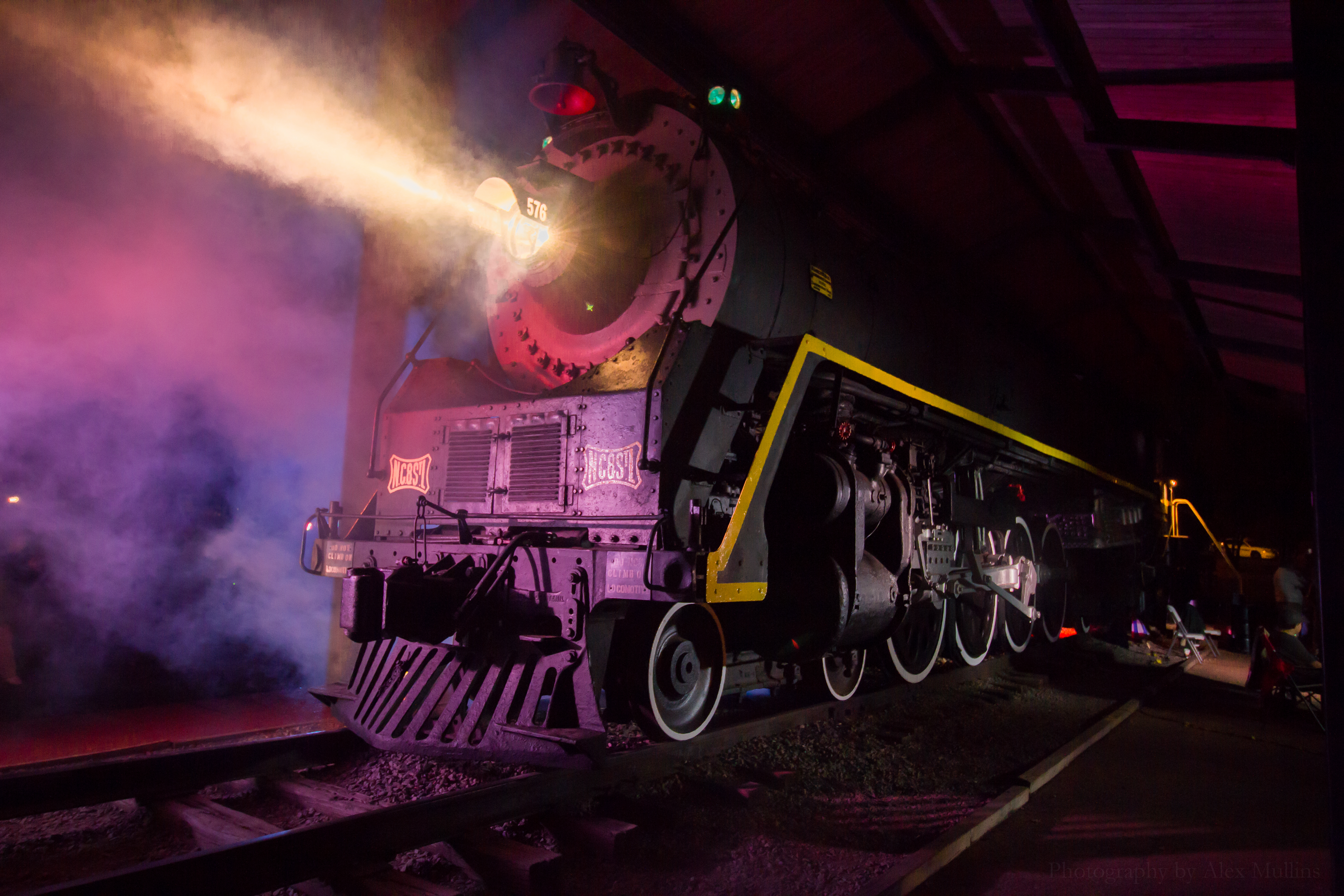 The 576 looks alive for guests at the first open house with special lighting and effects.